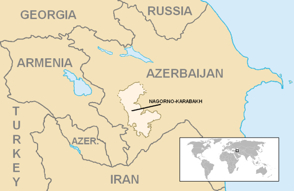 Location of Azerbaijan. World inset added by User:Kmusser.